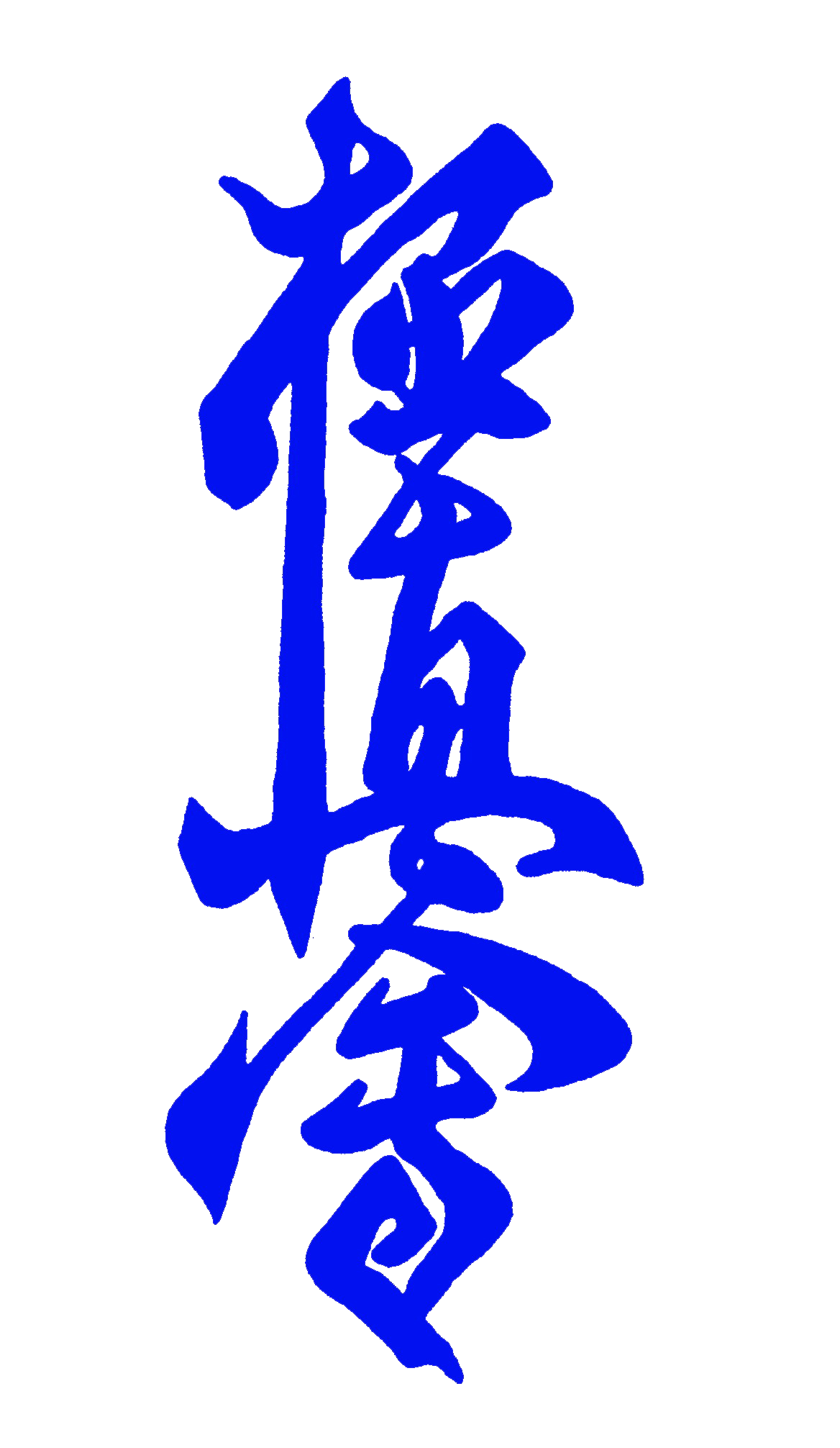 Kyokushin written in japanese